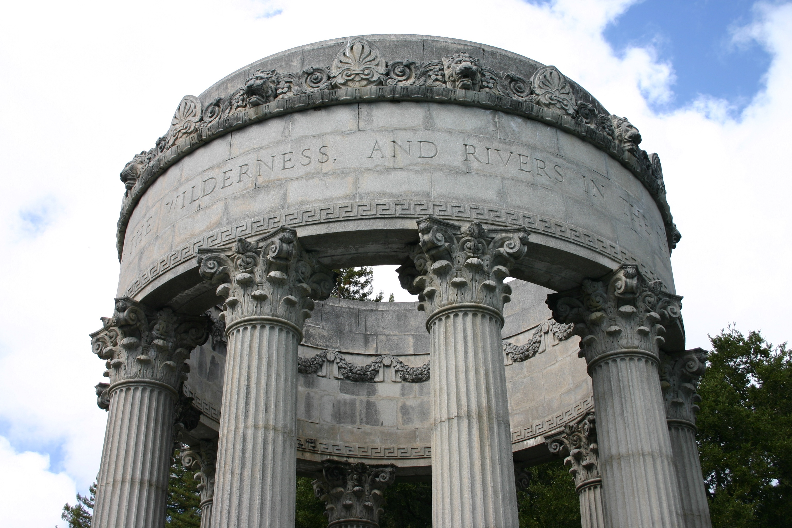 Pulgas Water Temple (built 1938) in Woodside, California Located at the terminus of the Hetch Hetchy aqueduct.